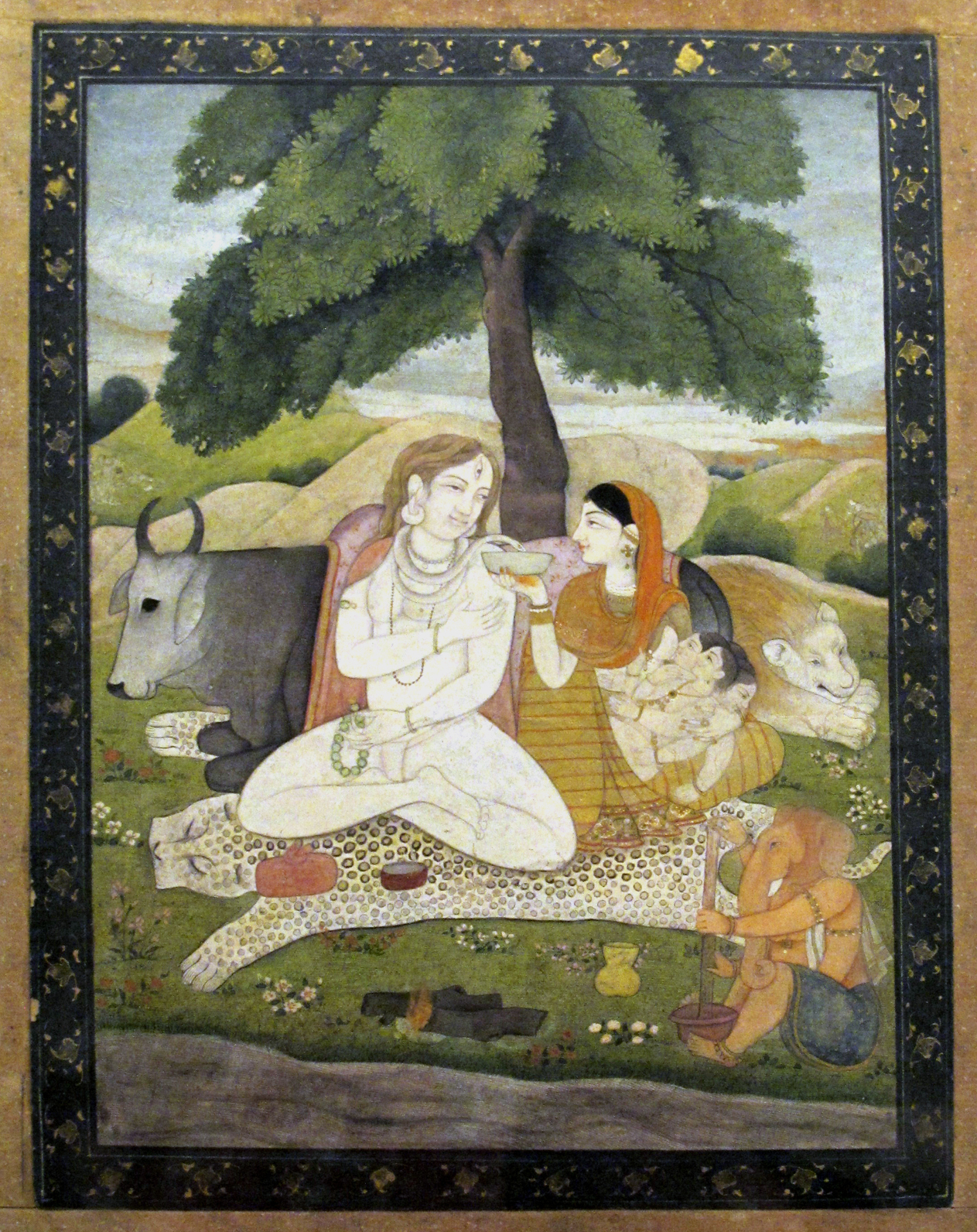 Shiva and his family. Pahari, Guler. Late 18th cent. Watercolor and opaque colors on paper. Prince of Wales Museum of Western India, officially renamed as Chhatrapati Shivaji Maharaj Vastu Sangrahalaya. Mumbay